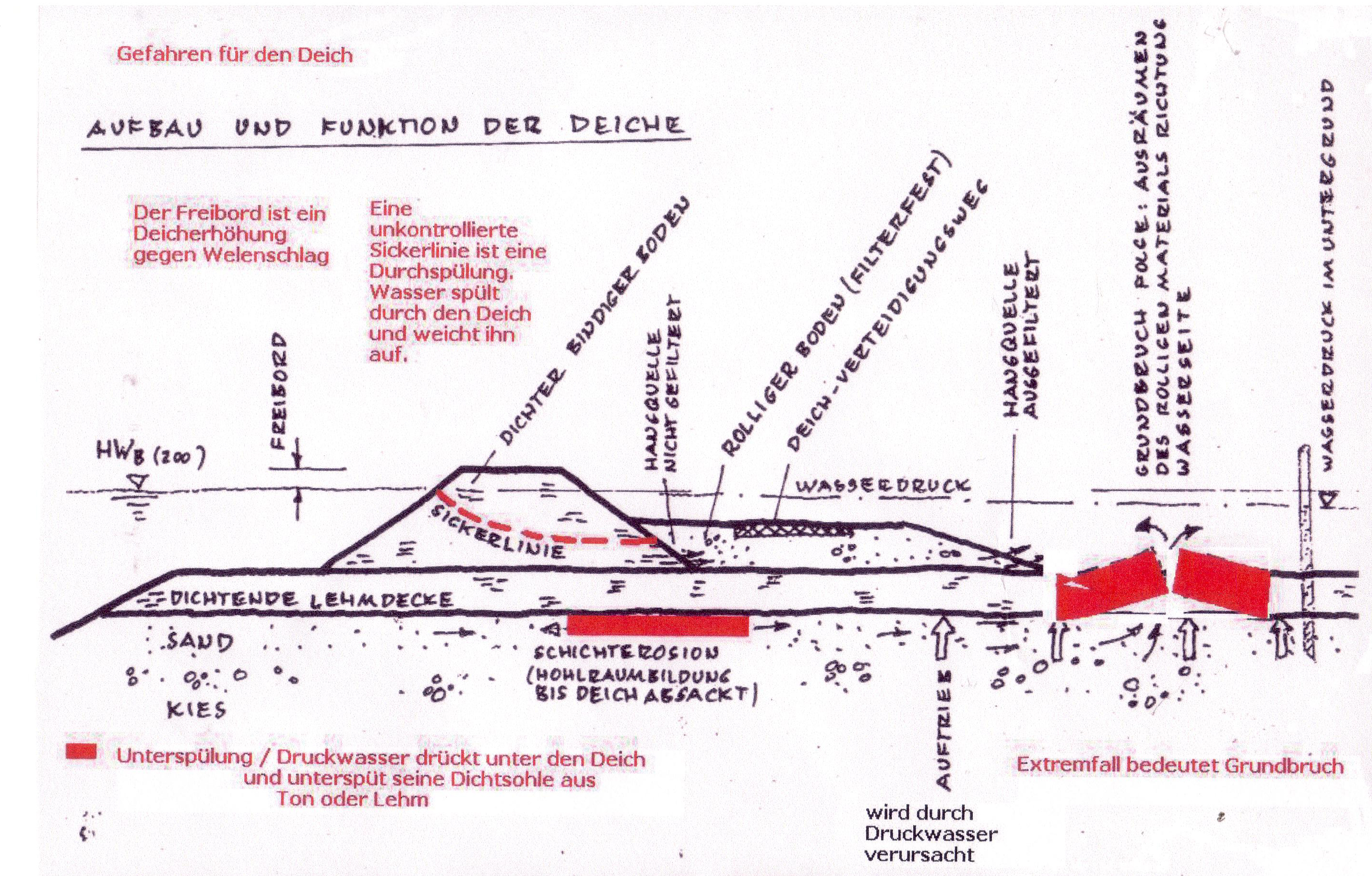 dikes are in danger of bursting